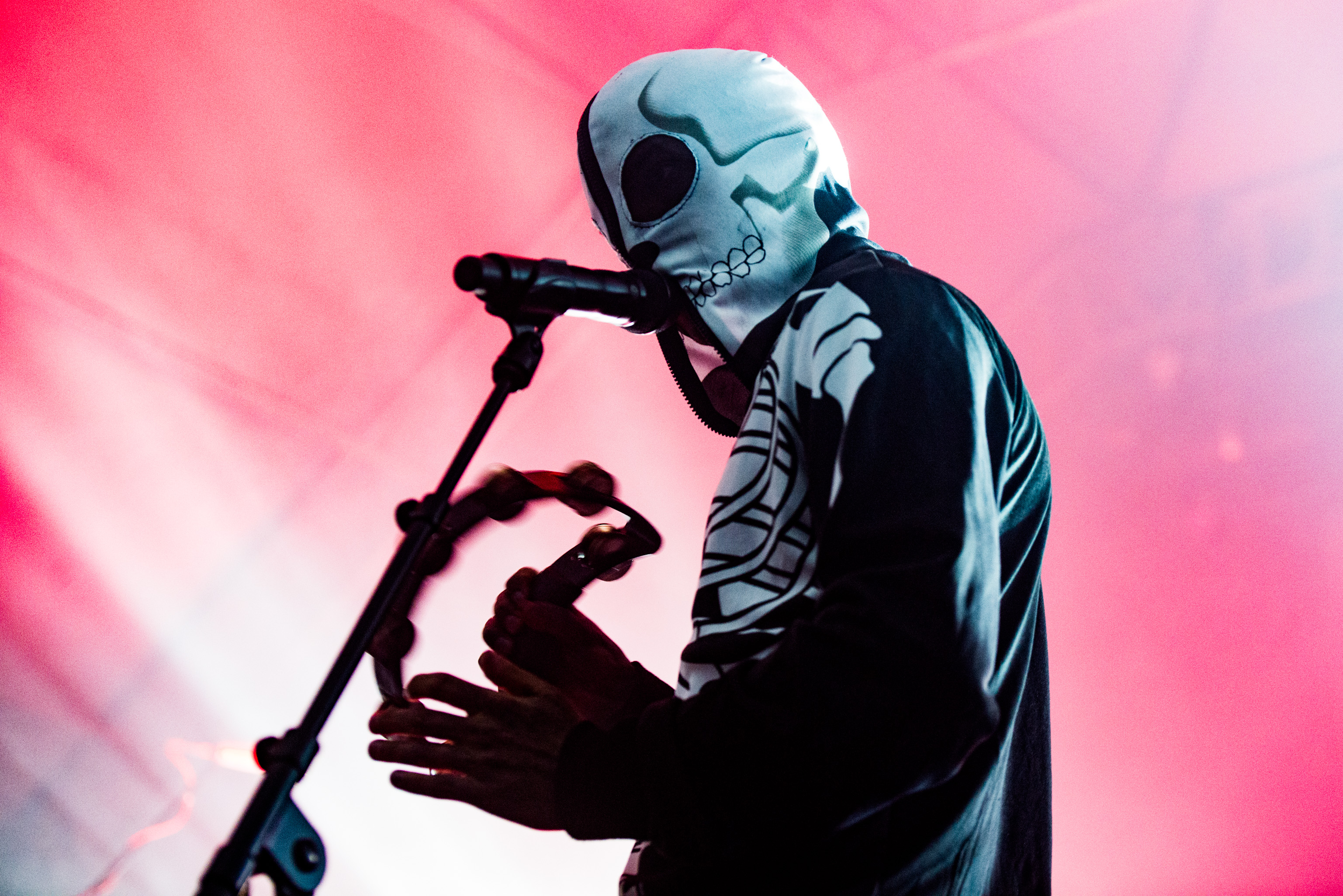 Twenty One Pilots Live @ Munich 2016